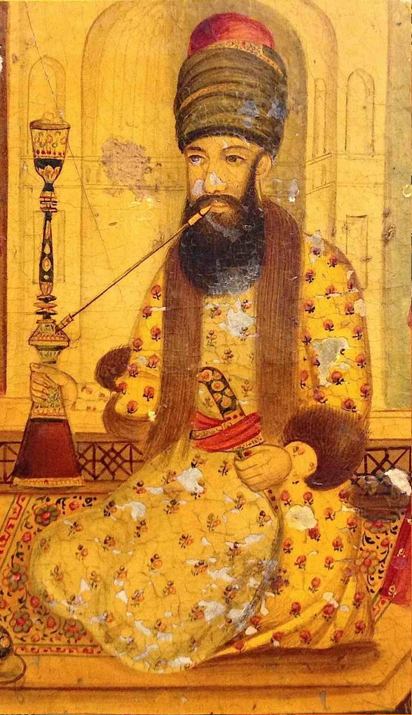 Image of Sadiq Khan Zand from an early 19th century lacquer binding. though it looks similar to another picture showing Karims Khan, this is of Sadiq Khan, as various internet sources state.